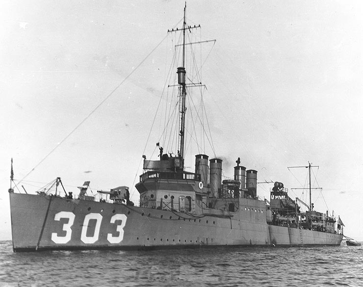 USS Reno (DD-303) anchored in San Diego harbor, circa 1920